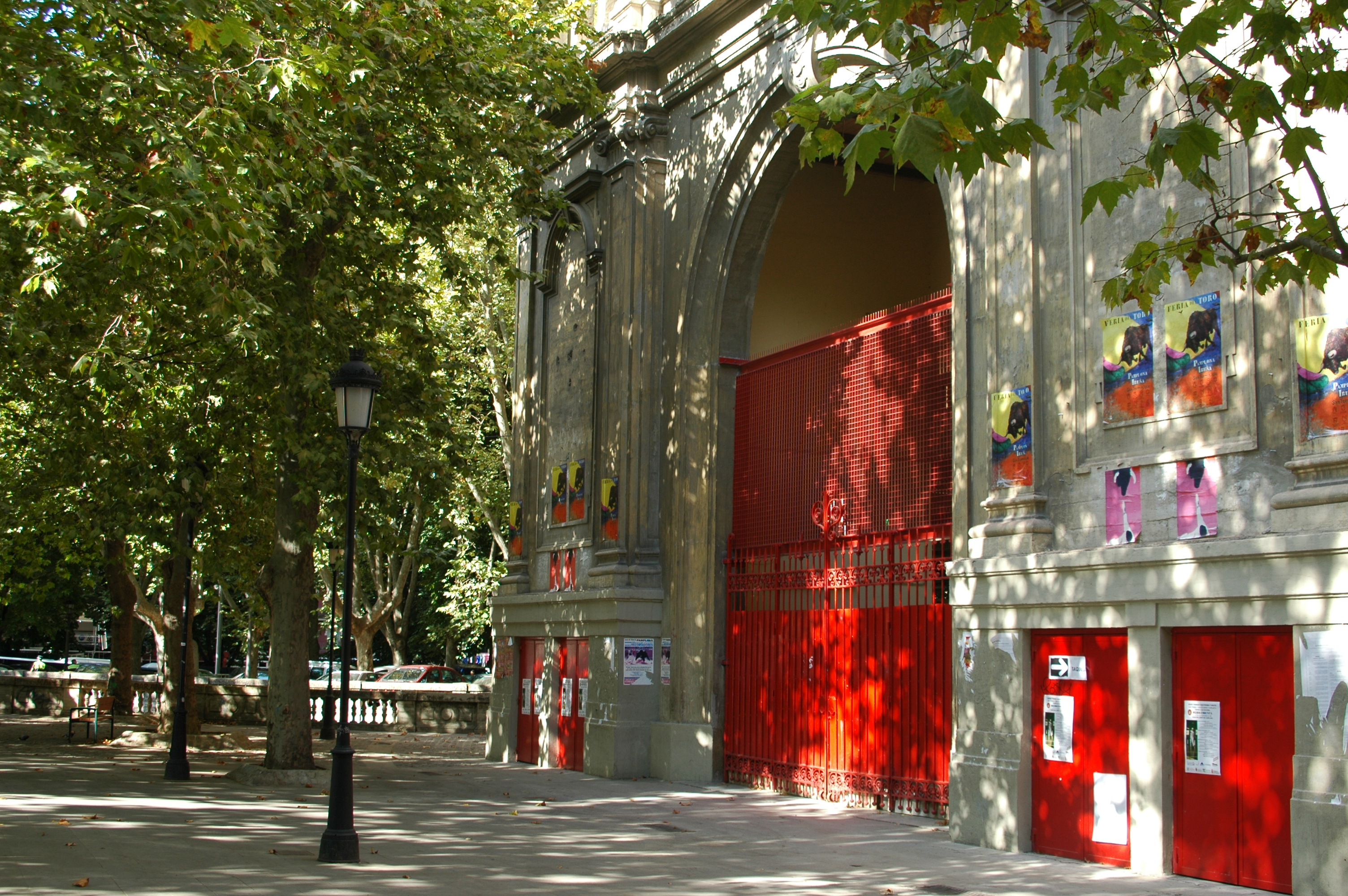 Entrance for the bulls